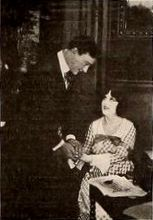 Still from the American drama film The Dangerous Talent (1920) with Harry Hilliard and Margarita Fischer, on page 3313 of the April 10, 1920 Motion Picture News.